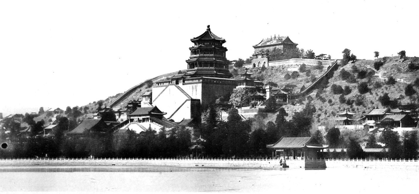 Image from La Chine à terre et en ballon.